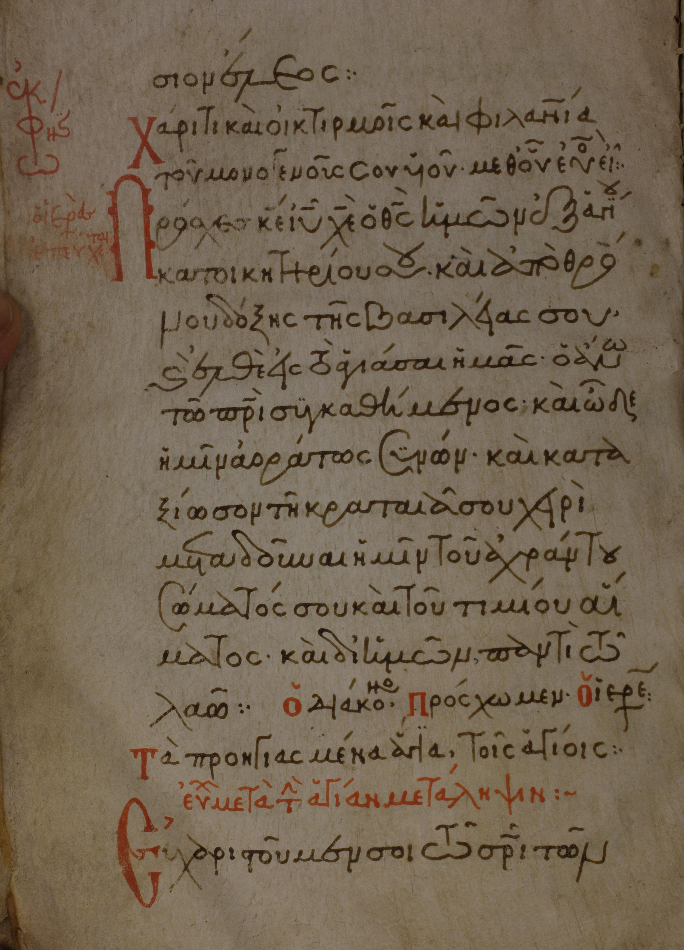 folio 54 recto of the codex